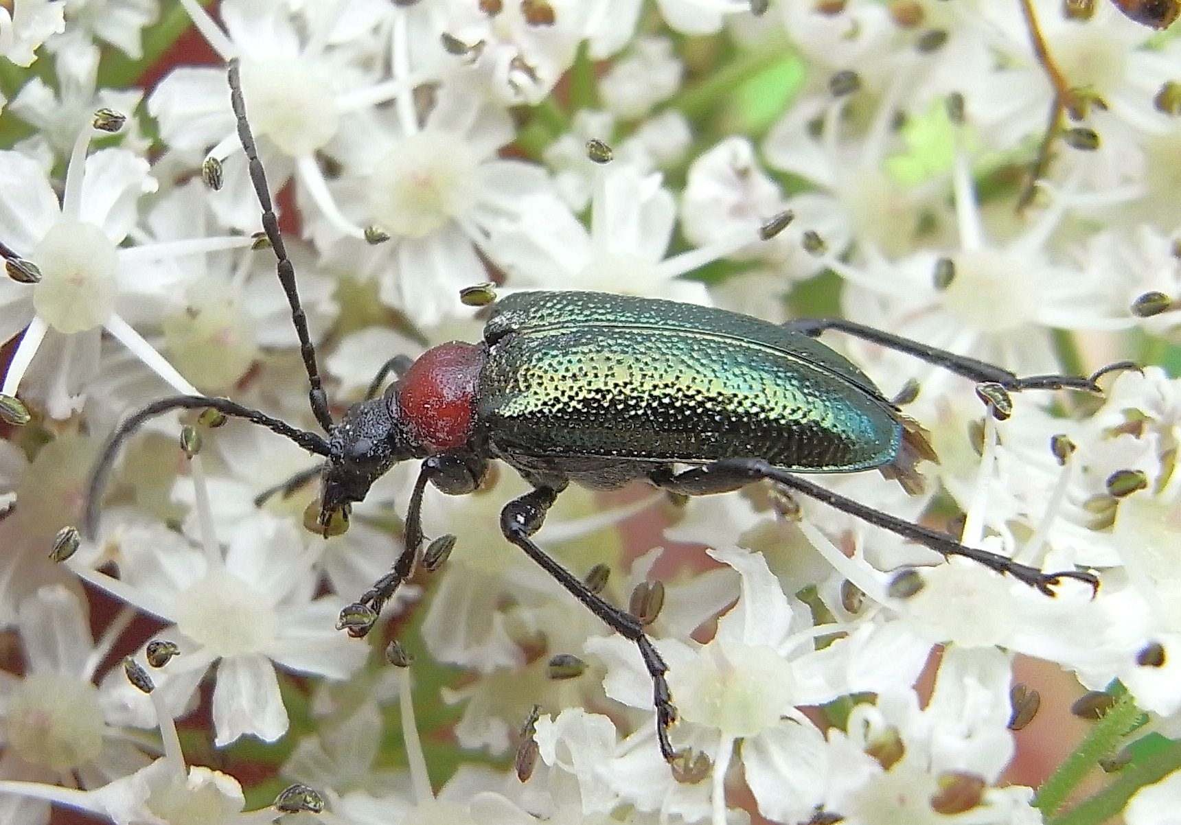 Gaurotes virginea from Austria, photo from 2010-07-23 Ricoh R8